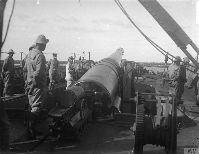 The Battle of the Piave River, June 1918 A 15-inch gun mounted on an Italian monitor for use on the Piave.